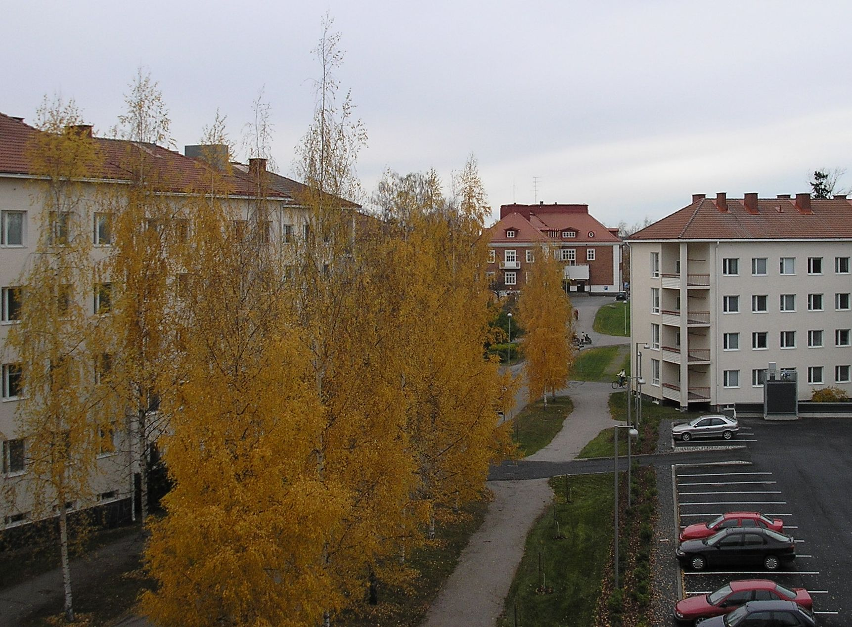 Buildings of Koukkuniemi nursing home in Tampere, Finland. Facility is the biggest in Finland with nearly a thousand residents.